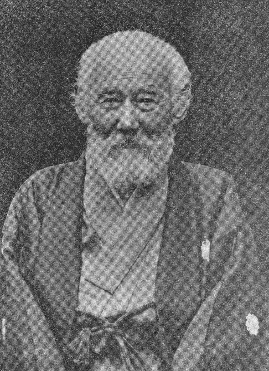 Portrait of Tanimori Yoshiomi (谷森善臣, 1818 – 1911)